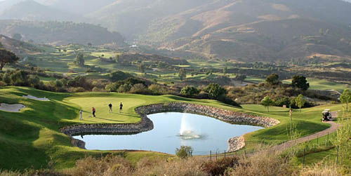 La Cala Resort, Sixteenth Green of Campo America